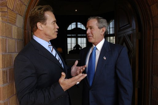 President George W. Bush meets with California Governor-Elect Arnold Schwarzenegger in Riverside, Calif., Thursday, Oct. 16, 2003. White House photo by Eric Draper.